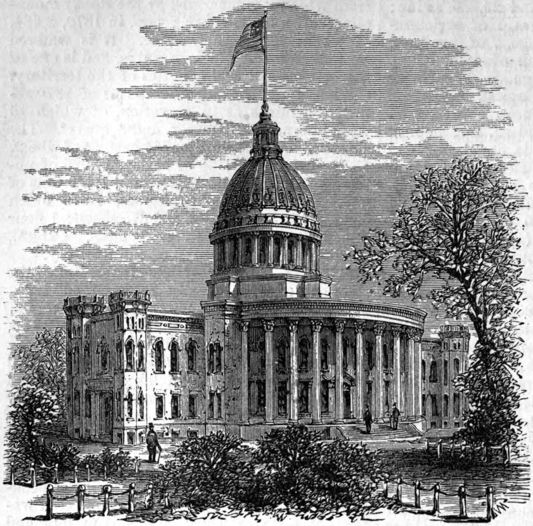 Woodcut view of the state capitol building at Madison, Wisconsin.